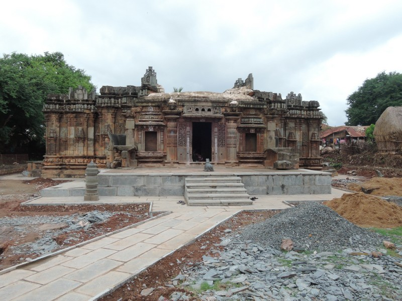 Chalukya Nagara style architecture of Chandramulishwara temple at Unkal near Hubli ಕನ್ನಡ: ಚಾಲುಕ್ಯ ನಾಗರ ಶೈಲಿಯ ಚಂದ್ರಮೌಳೀಶ್ವರ ದೇವಾಲಯ, ಉಣಕಲ್, ಹುಬ್ಬಳ್ಳಿ